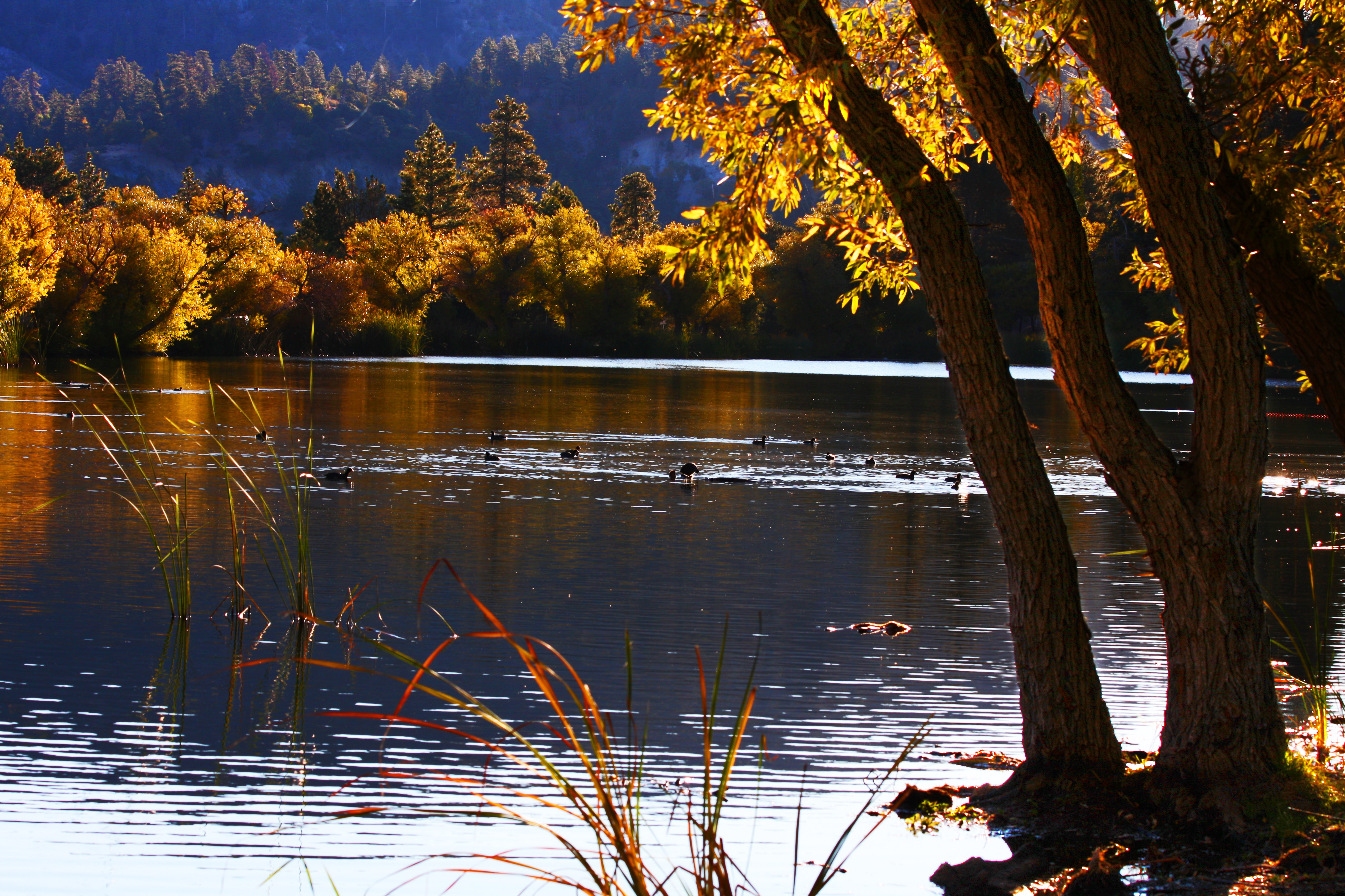 Jackson Lake — a reservoir in the San Gabriel Mountains, on the Big Pine Highway near Wrightwood, in San Bernardino County, California. "A beautiful fall morning on Jackson Lake, California."